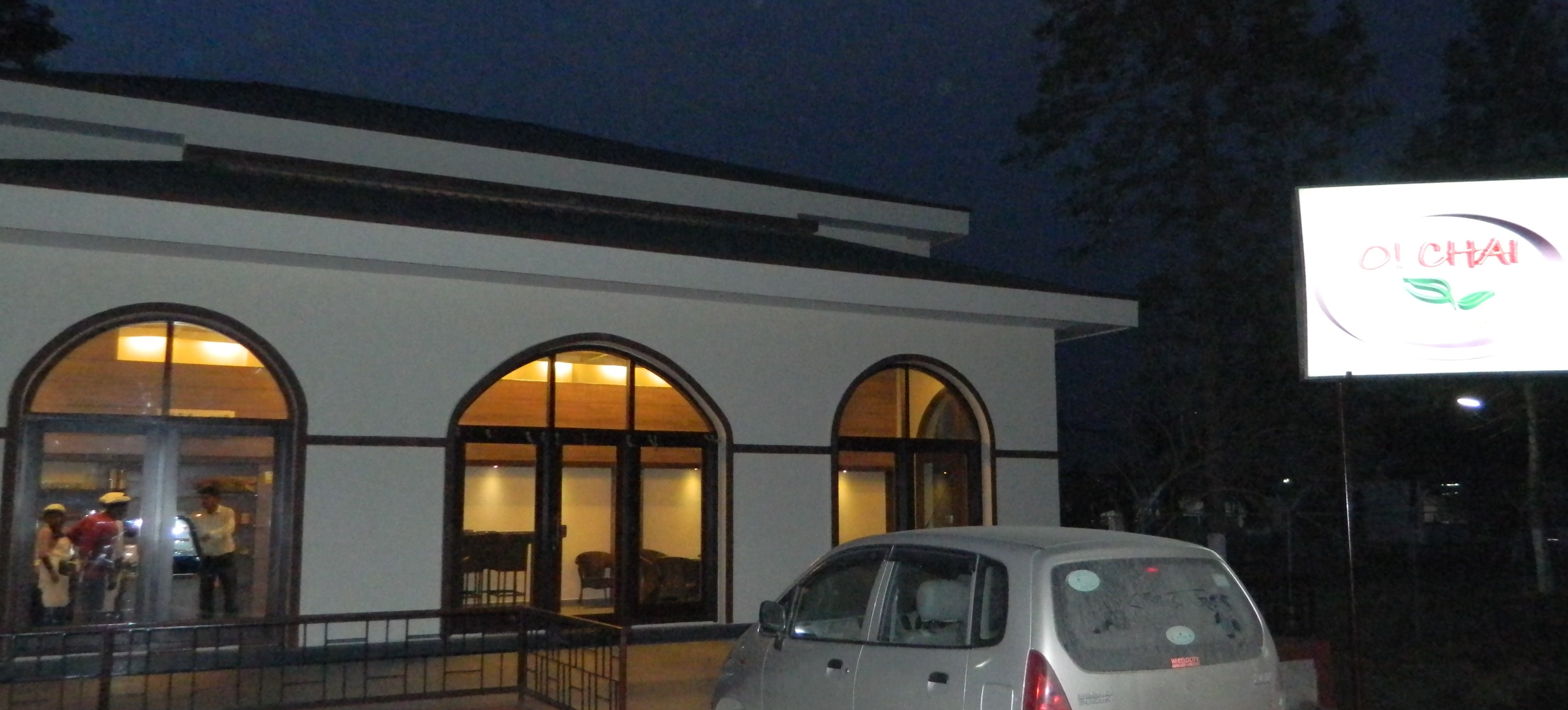 A 'Tea Lounge' near Dibrugarh Airport